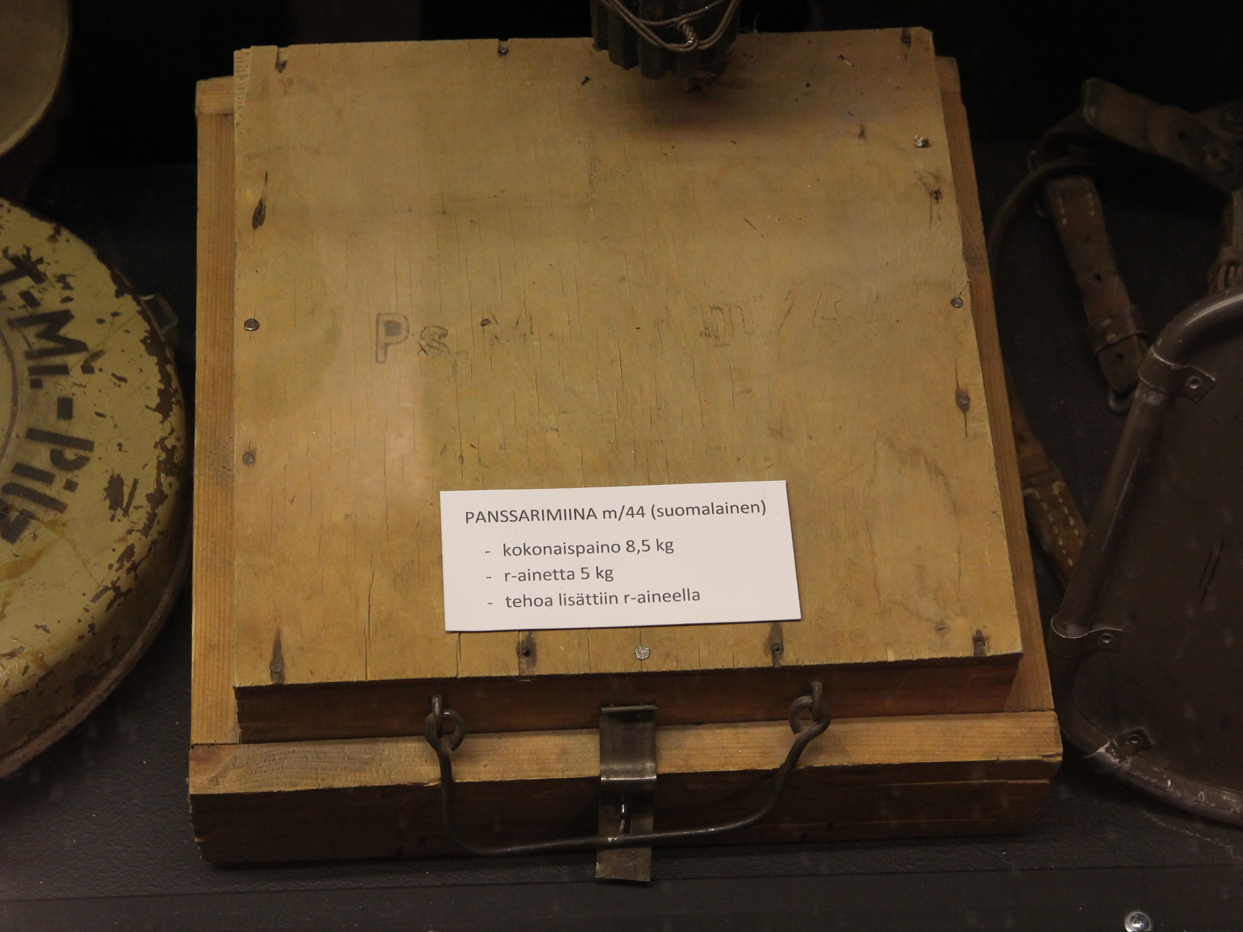 Finnish anti-tank mine m/44 in RUK-museum in Hamina.